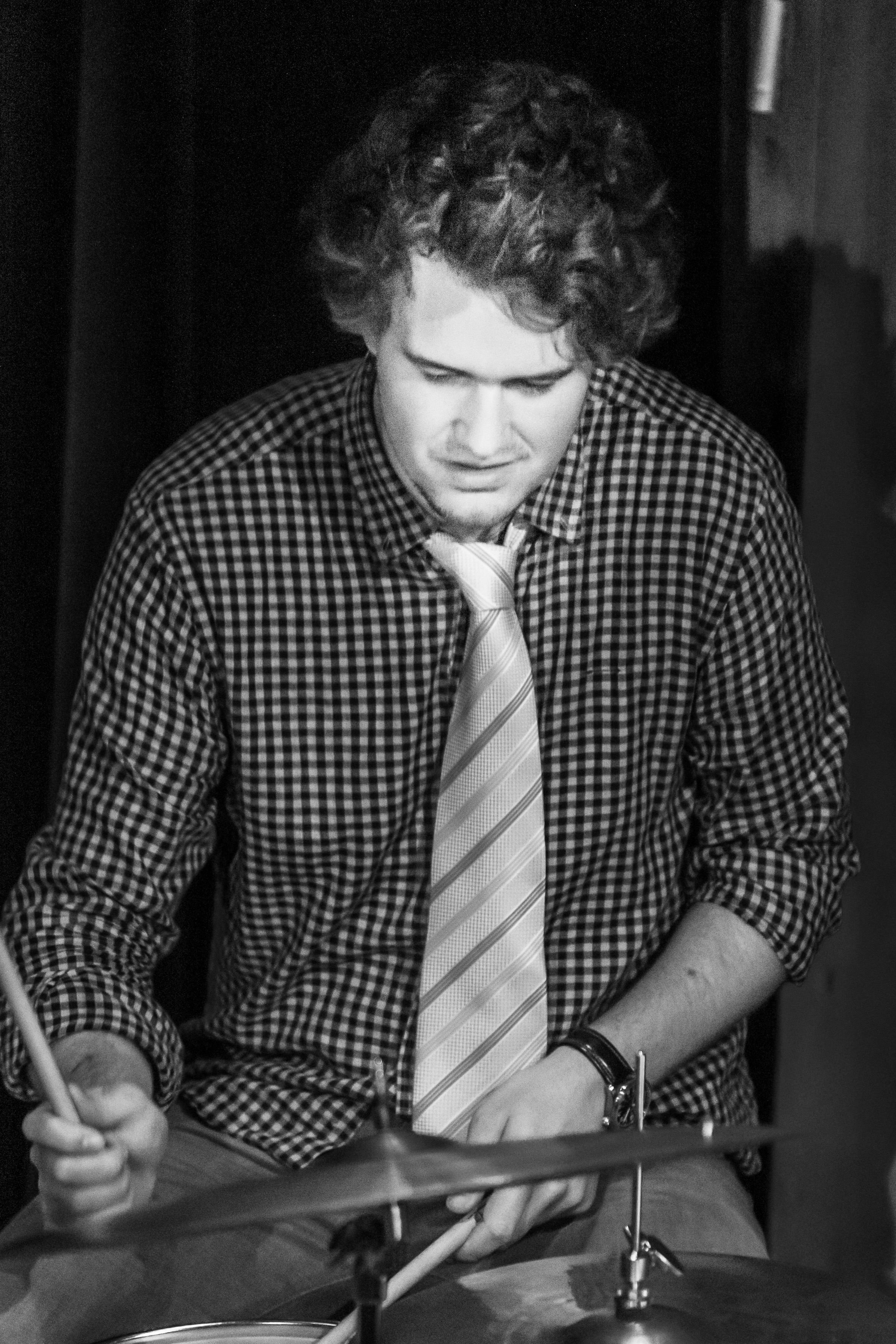 Jazz drummer Silvio Morger on stage during concert Trumpet Summit feat. Klaus Osterloh at Pantheon Casino, Bonn.